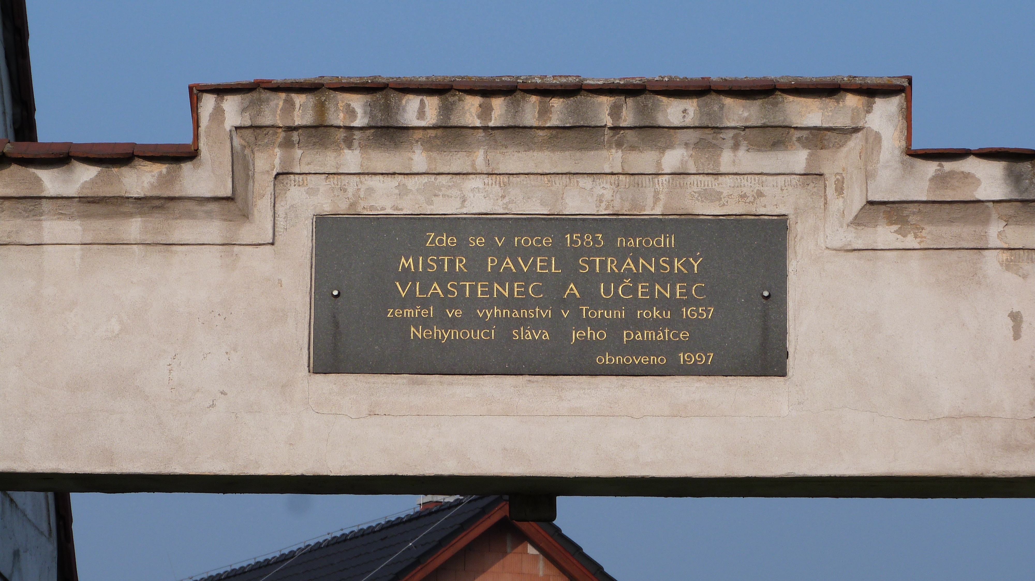 Commemorative plaque of Pavel Stránský in Zápy Translation: Master Pavel Stránský, patriot and scholar, was born here in 1583. He died in Toruń exile in 1657. Eternal glory of his legacy. Renewed in 1997.